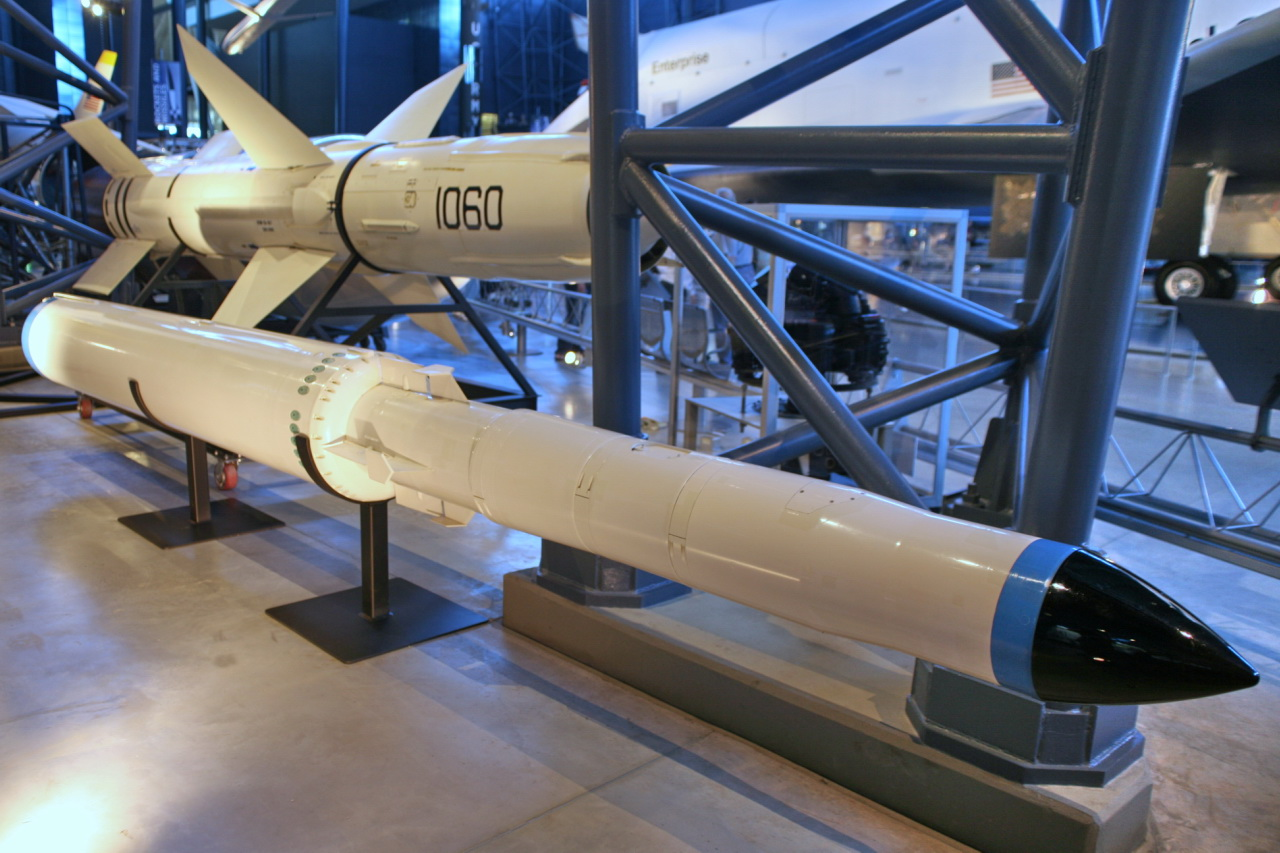 This is the U.S. Navy's solid-fuel Subroc (Submarine Rocket), the first guided missile capable of underwater launch, guided airborne trajectory, and underwater detonation. It was therefore very complex and underwent an extensive development program from 1955 until it became operational in 1965. Subroc could either be used as an underwater-to-air, underwater-to-underwater, or surface-to-underwater weapon and carried a nuclear warhead. It was fired from a standard torpedo tube, then rose to the surface, fly for 25-50 miles before re-entering the water with its rocket motor already ejected, then homed in on an enemy submarine. It went out of service in 1987. Steven F. Udvar-Hazy Center.